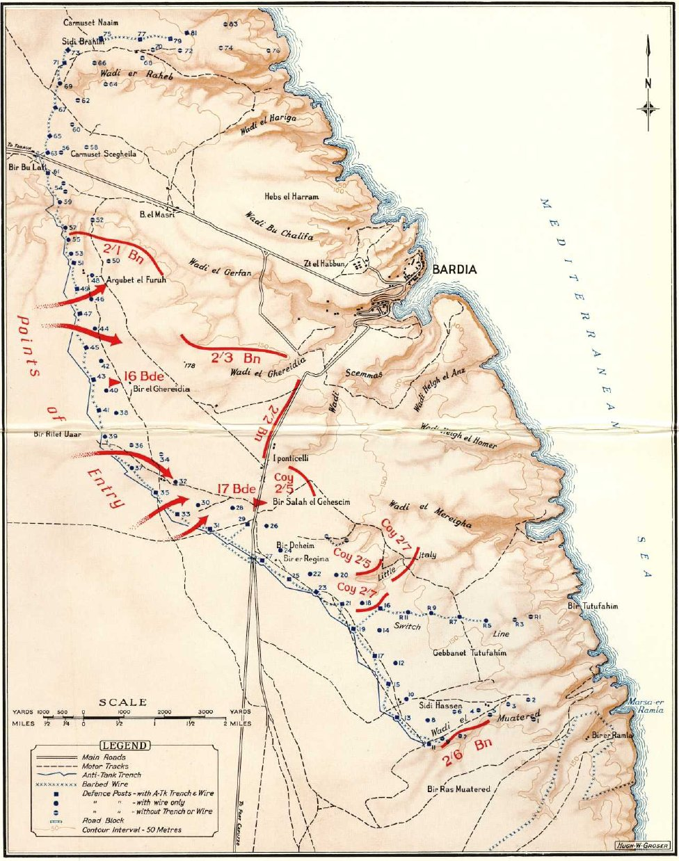 The attack on Bardia. Positions as at dusk on 3 January 1941.